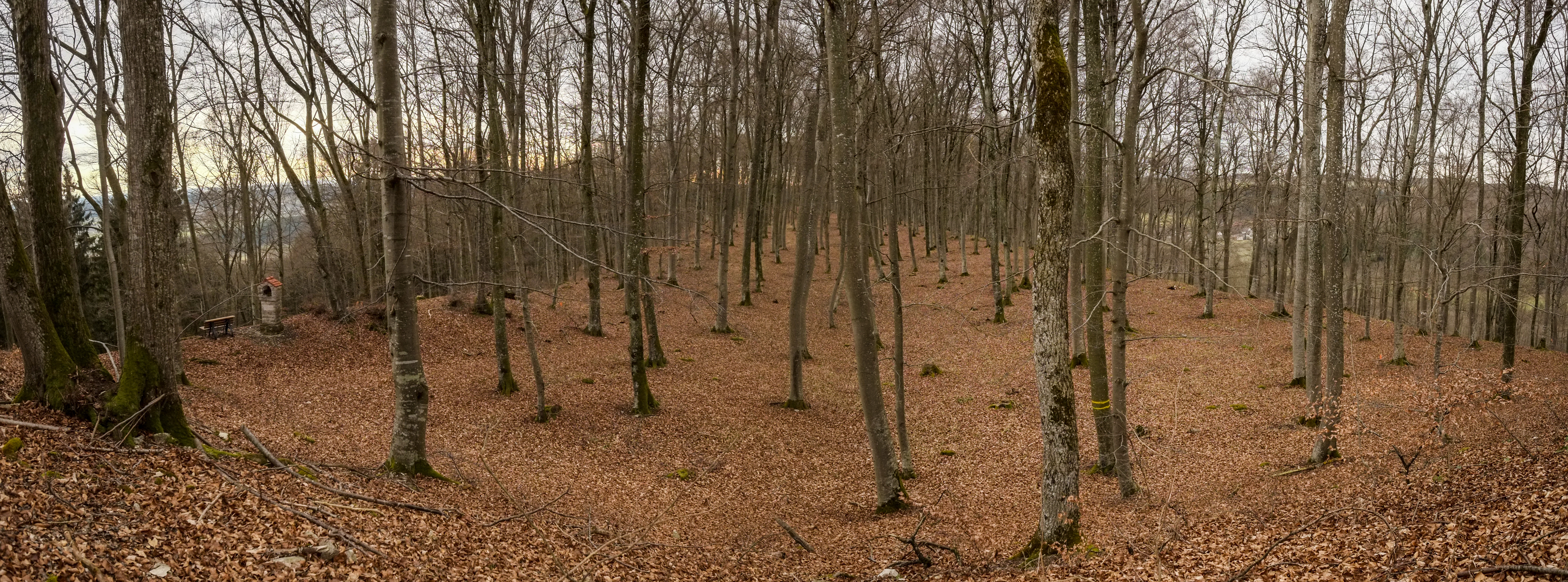 Hillfort Alte Burg, Langenenslingen, district Biberach, Baden-Württemberg, Germany